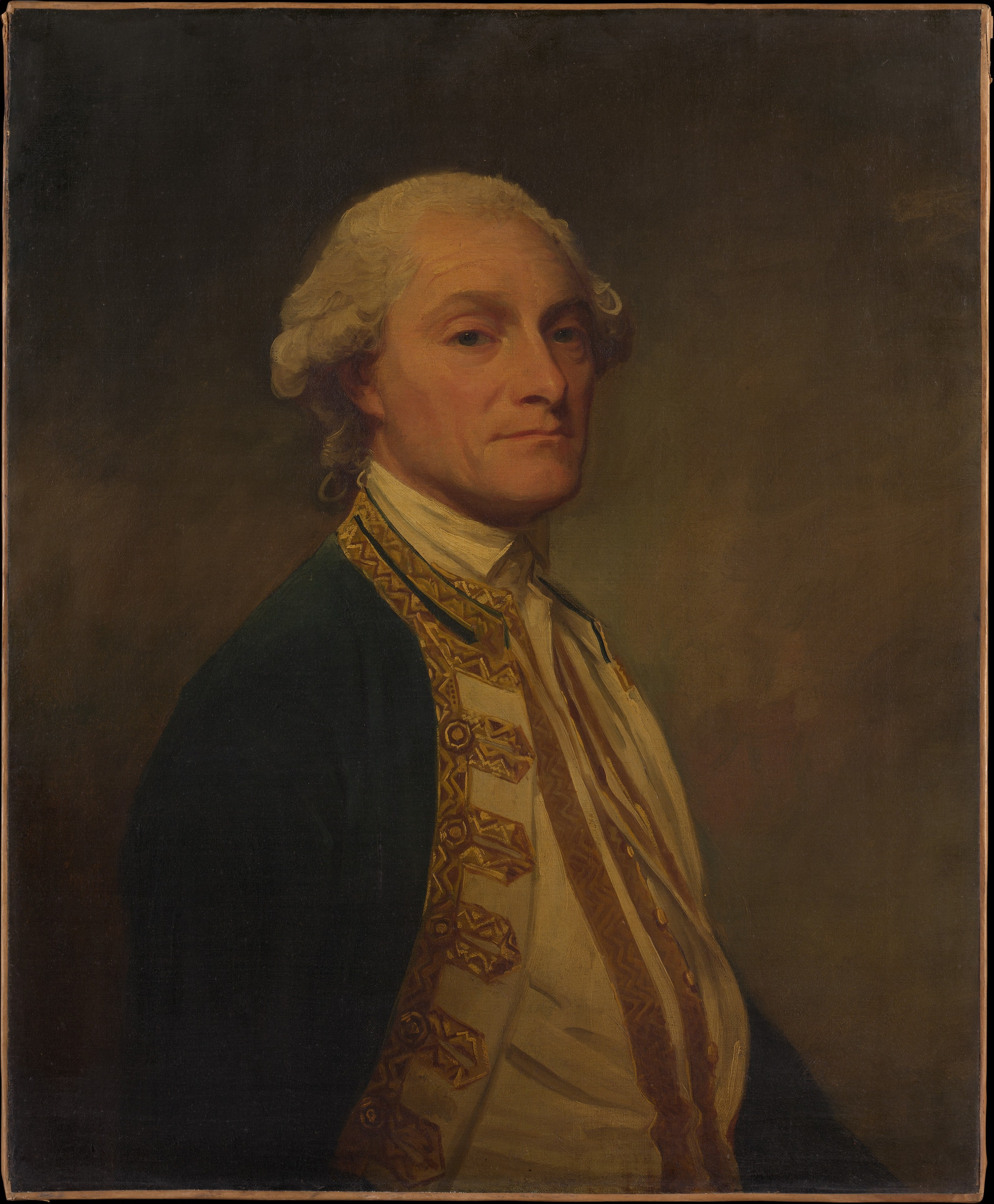 Portrait of Sir Chaloner Ogle, 1st Baronet (1726–1816), Admiral in the British navy.